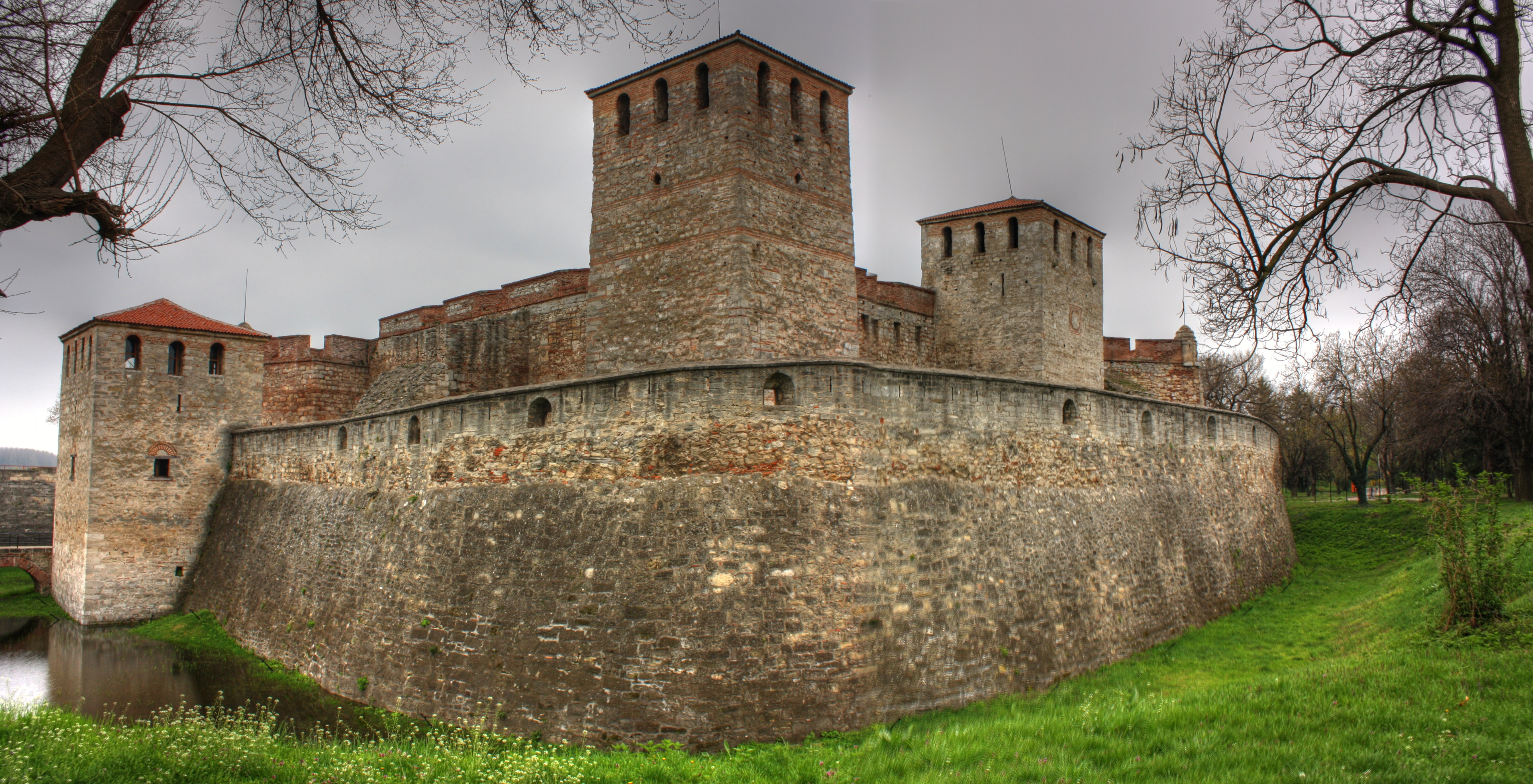 Baba Vida is a medieval fortress in Vidin in northwestern Bulgaria and the town's primary landmark. It consists of two fundamental walls and four towers and is said to be the only entirely preserved medieval castle in the country.